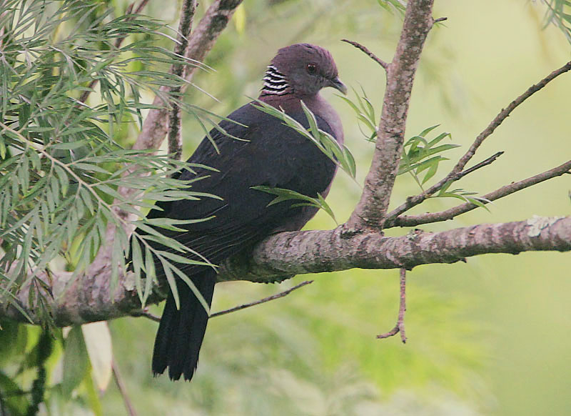 A rather secretive and often difficult to see endemic of Primary rain forrest and damp submontane forrest. Image taken at Hunas Falls, near Kandy, Sri Lanka.